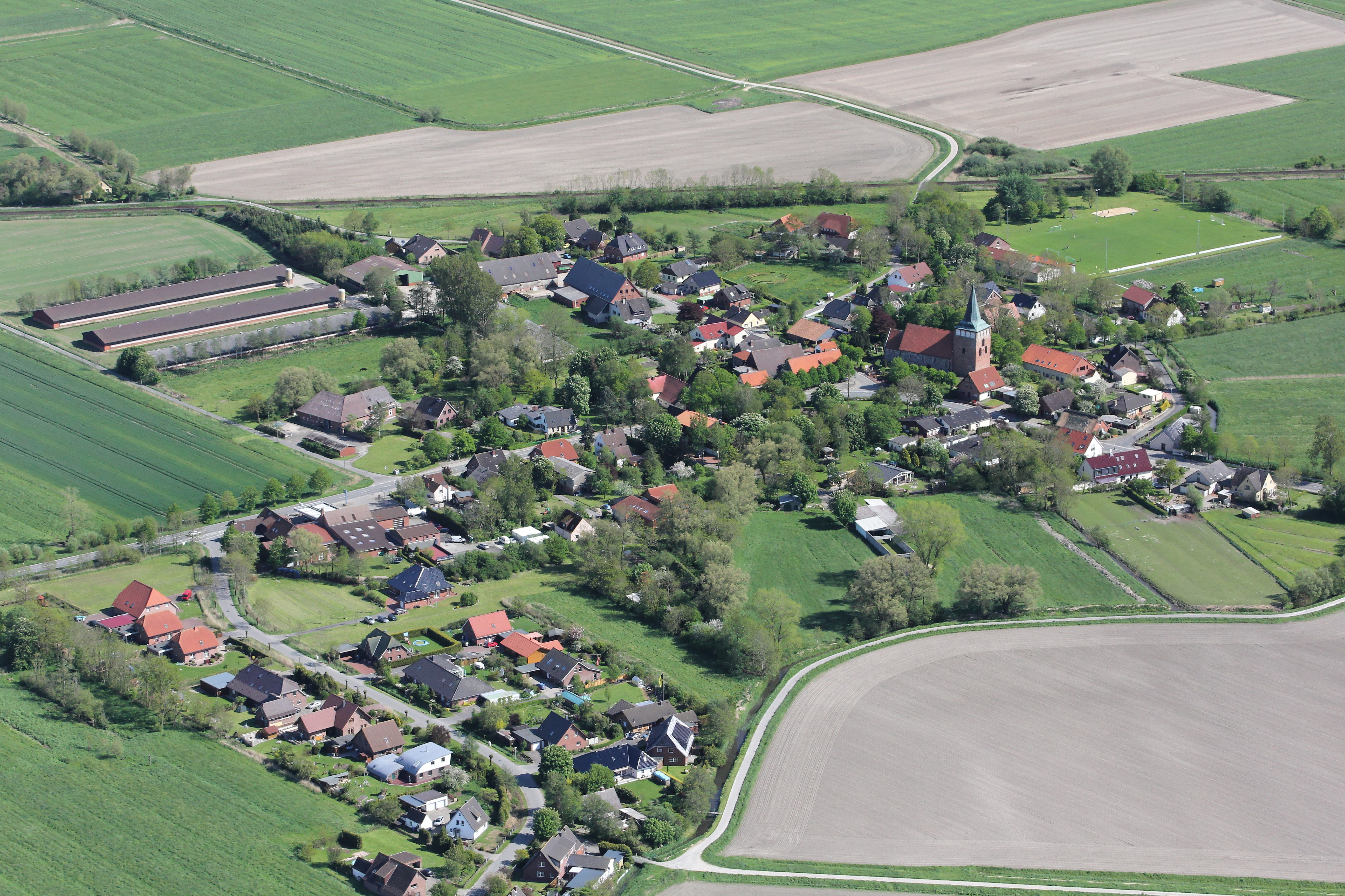 A aerial photograph of a unidentified location.